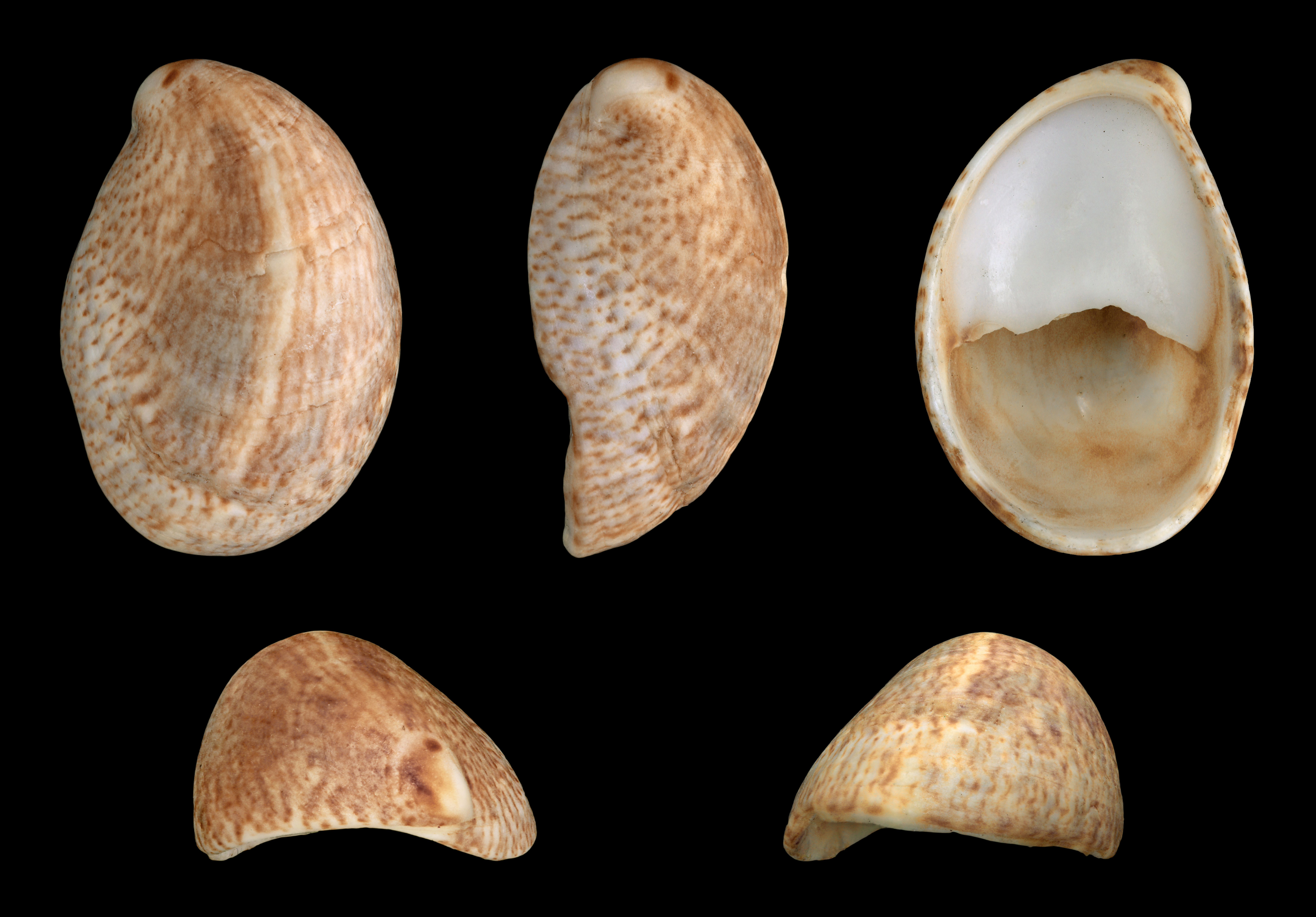 Common Slipper Shell; Length 2.9 cm; Originating from the Channel coast north of Caen, France; Shell of own collection, therefore not geocoded.